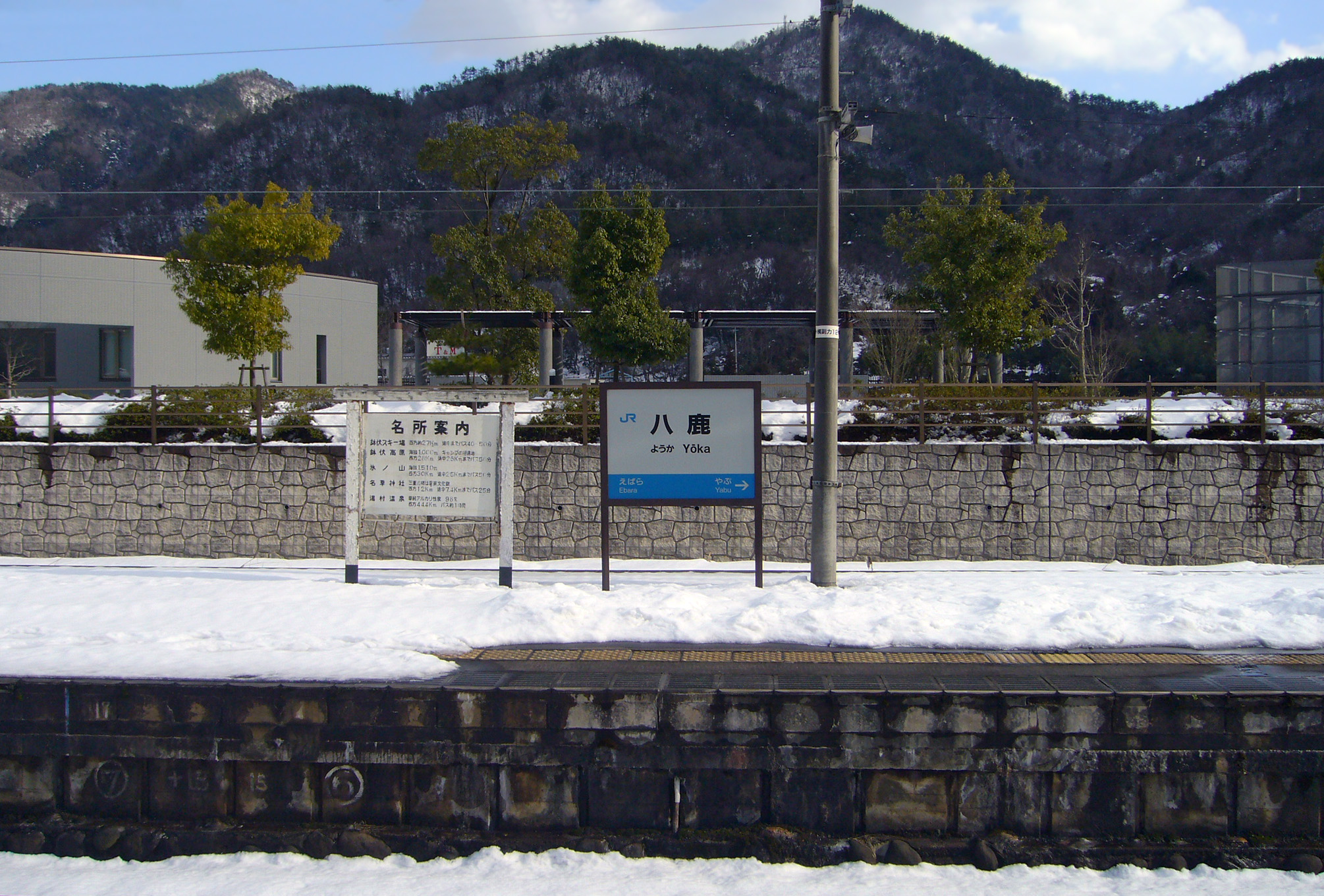 Yoka Station in Yabu, Hyogo prefecture, Japan